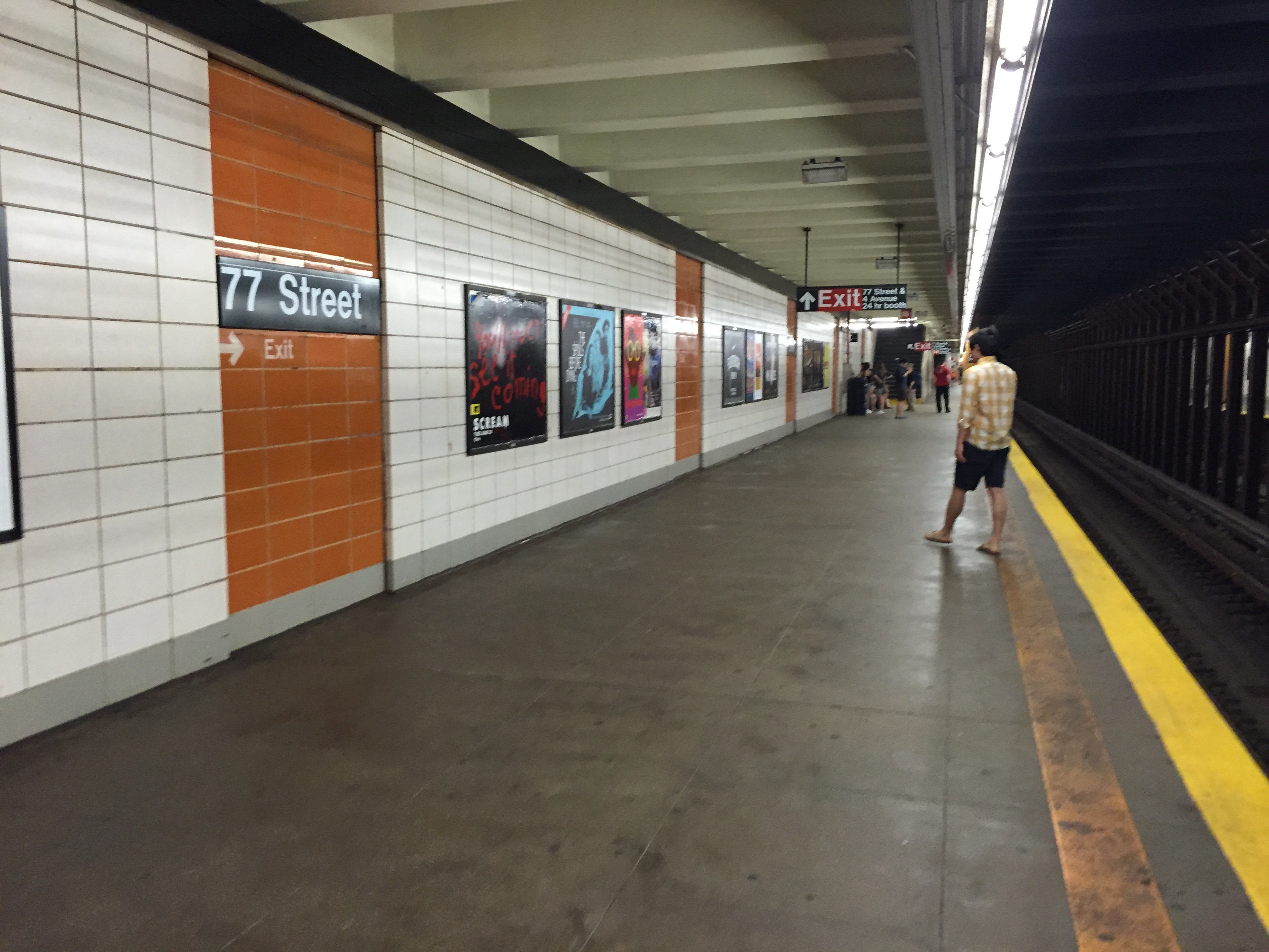 Uptown platform at 77th Street on the R.